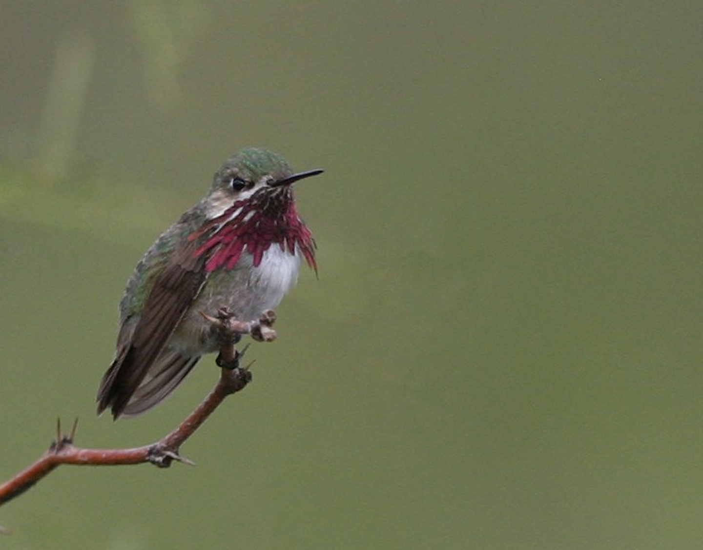 This is the smallest breeding bird in the U.S. and regularly passes through SE AZ during its southward migration in August. A resident of western mountains, we sometimes get a few at feeders here in SLOCO during their northward migration in spring.